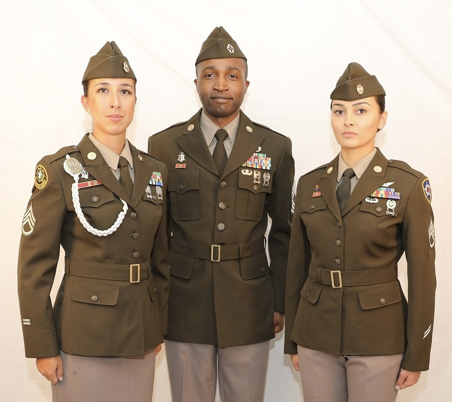 Soldier models pose in the final prototypes of the proposed pinks and greens dress uniforms. A skirt and pumps would be optional for women. (Army)